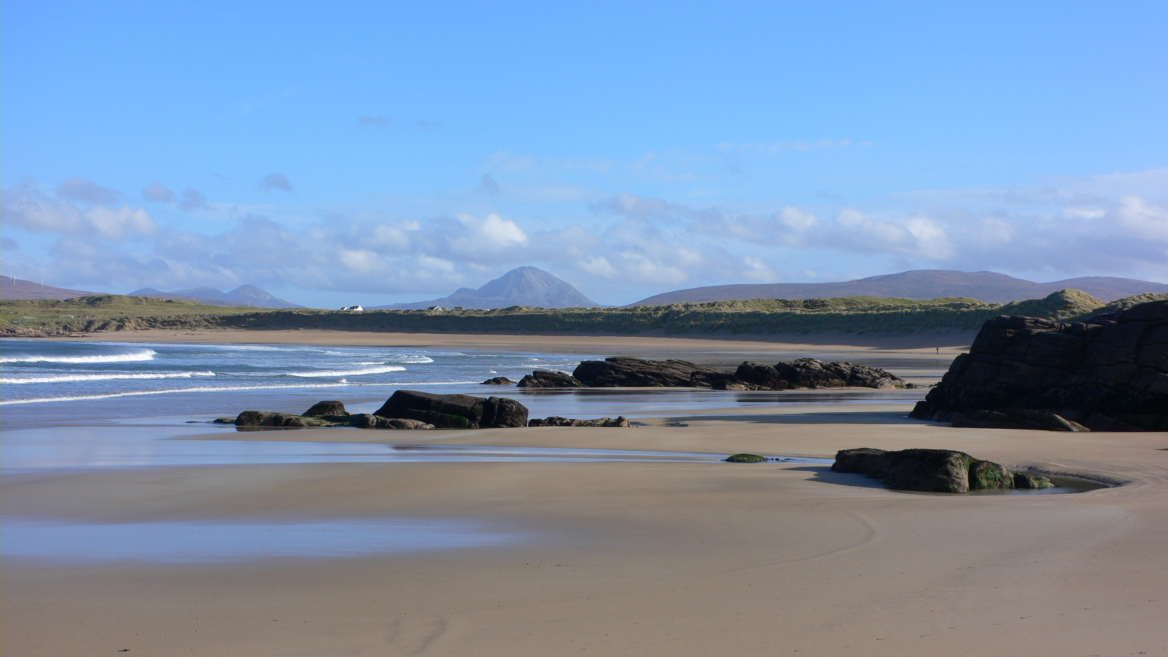 A lone person is seen walking Mullach Dearg beach in this eastward view toward Mt Errigal.